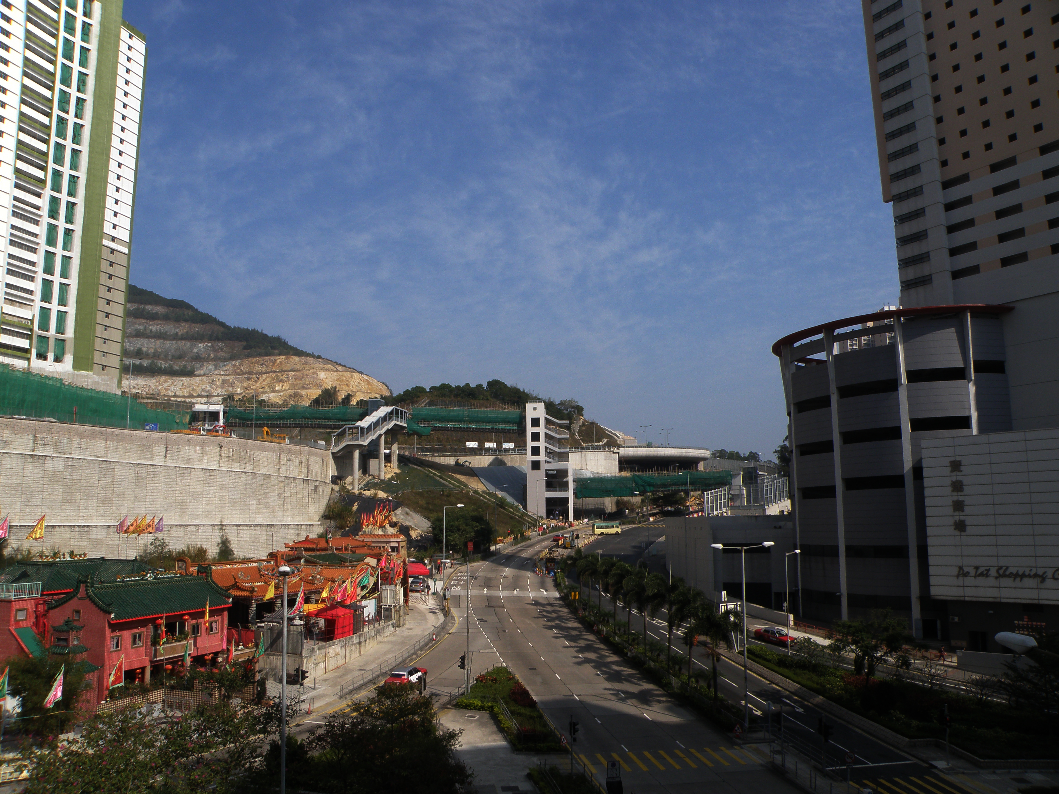 Po Lam Road in Sau Mau Ping, Hong Kong.